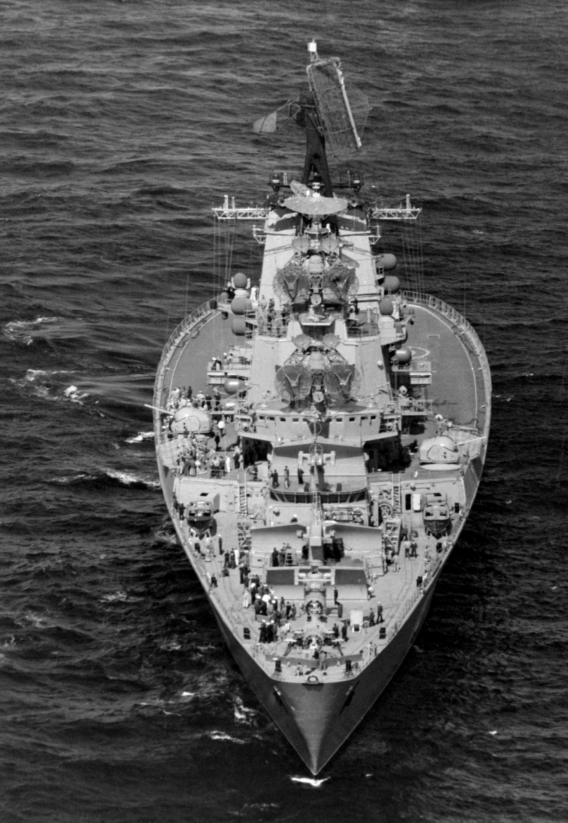 An aerial bow view of the Soviet Moskva class guided missile aviation cruiser Leningrad.